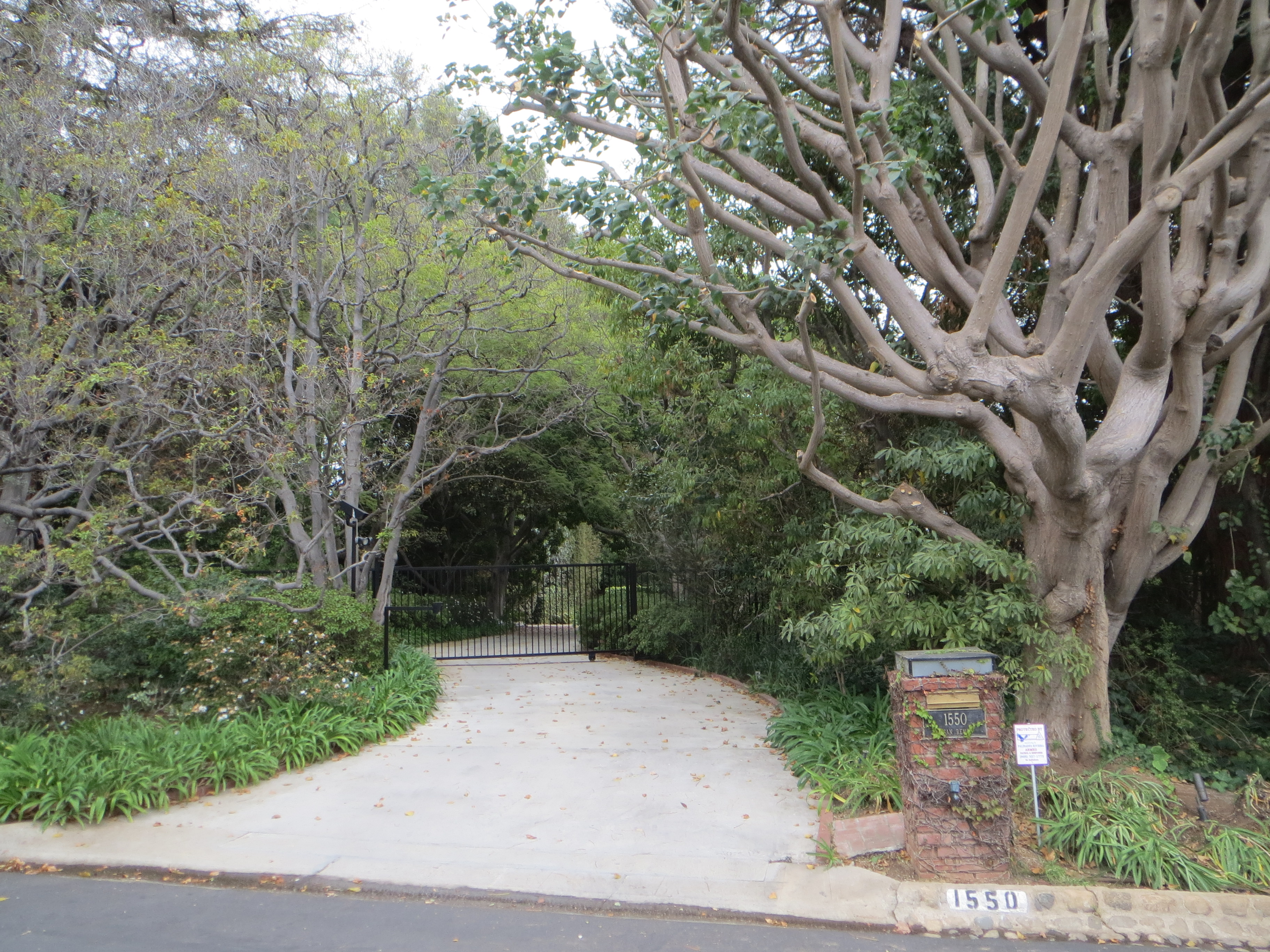 Street view of 1550 San Remo Drive, Pacific Palisades, exile home of Thomas Mann